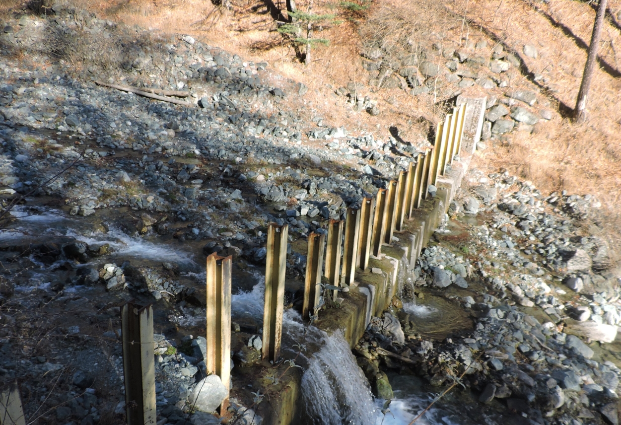 Torrente Prebec: weir near the village of Strobietti (Chianocco, Piedmont, Italy)